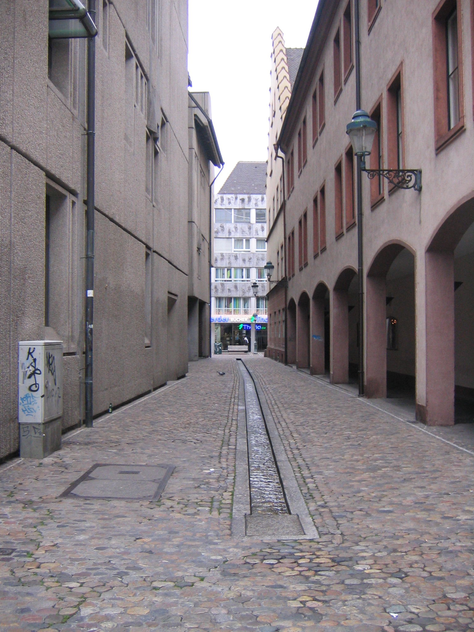 Bächle through Marktgasse in Freiburg im Breisgau